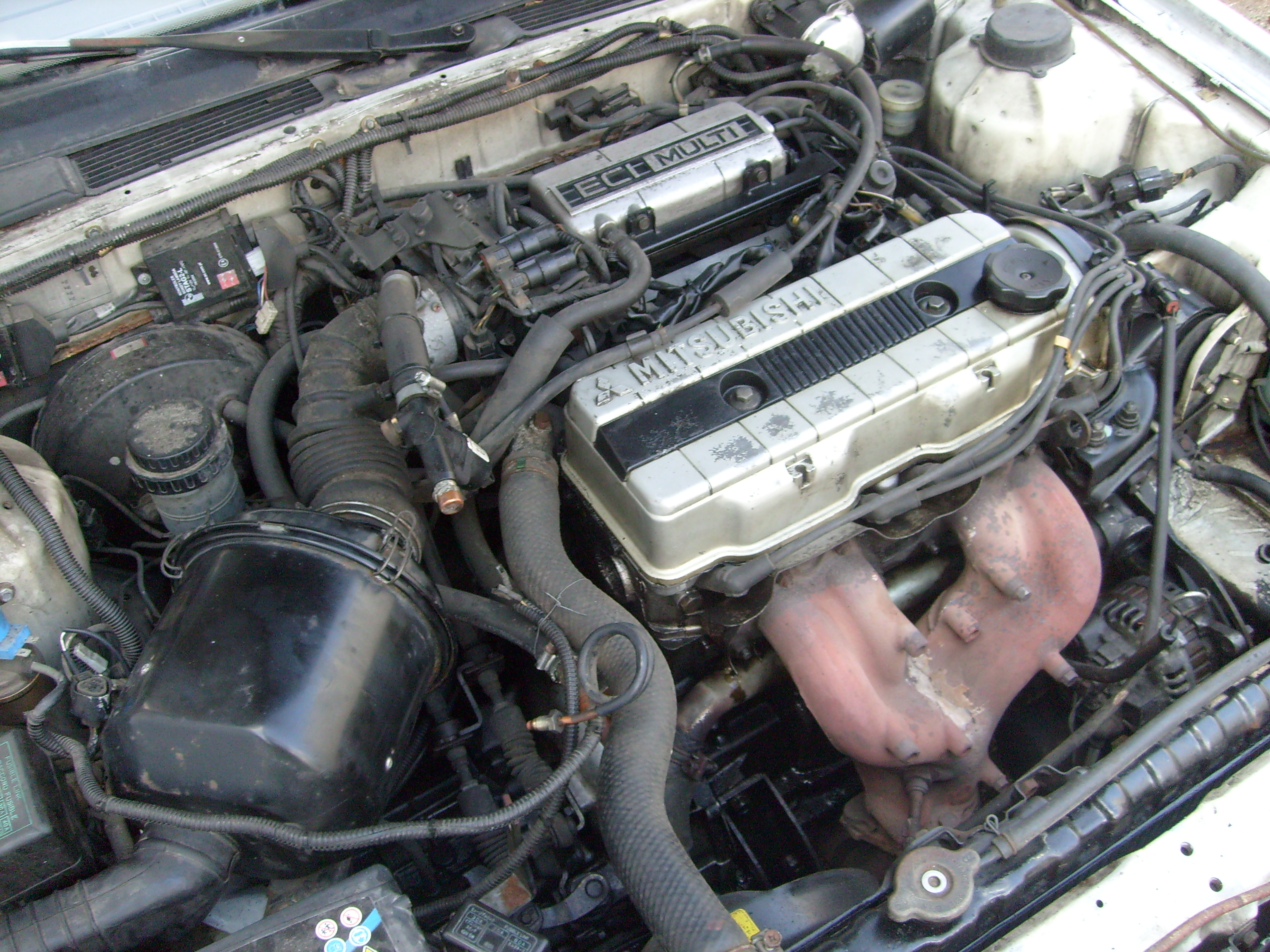 Mitsubishi Galant 2,4L